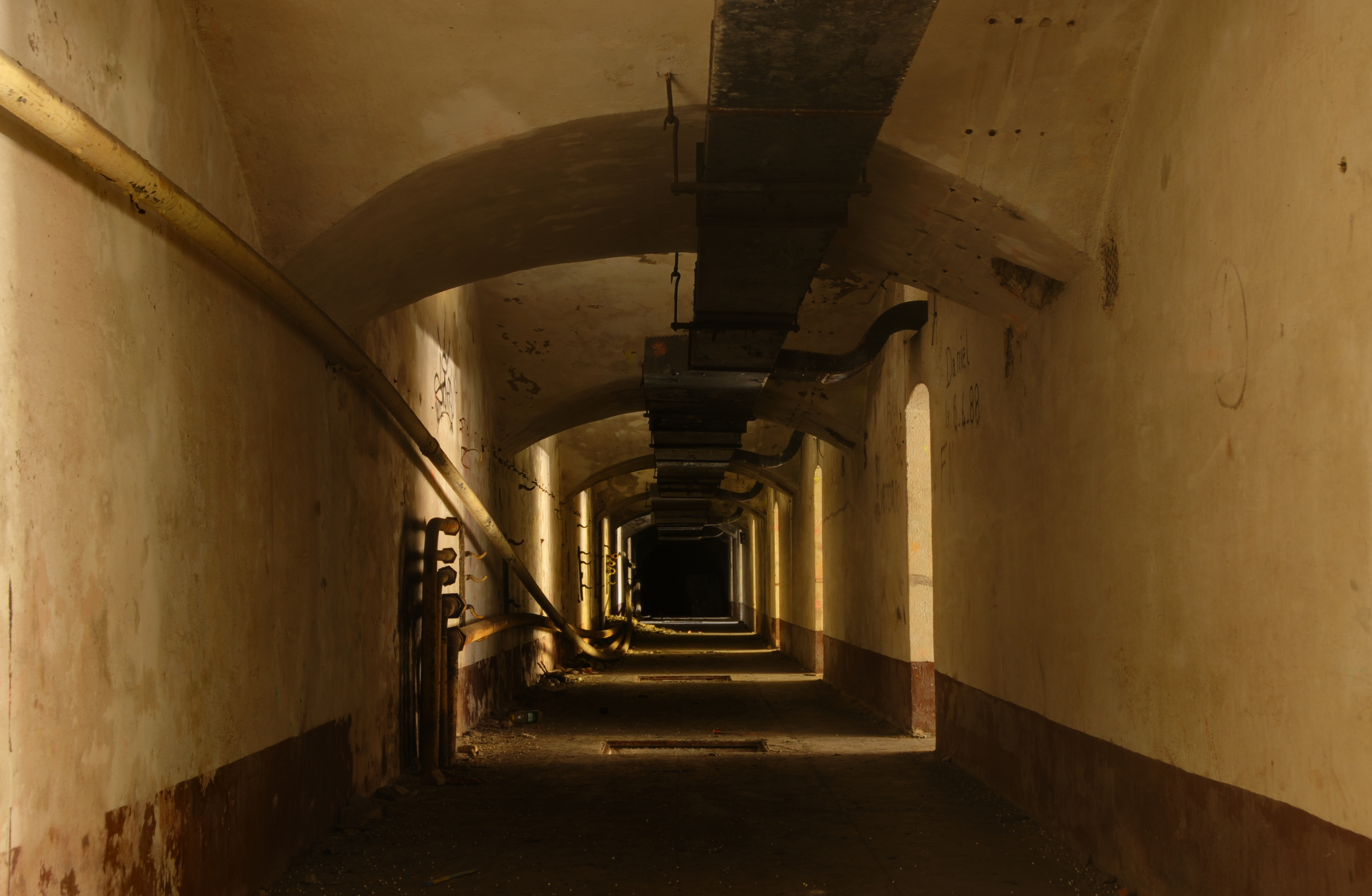 Dans le casernement. Salbert hill fortifications (HDR).